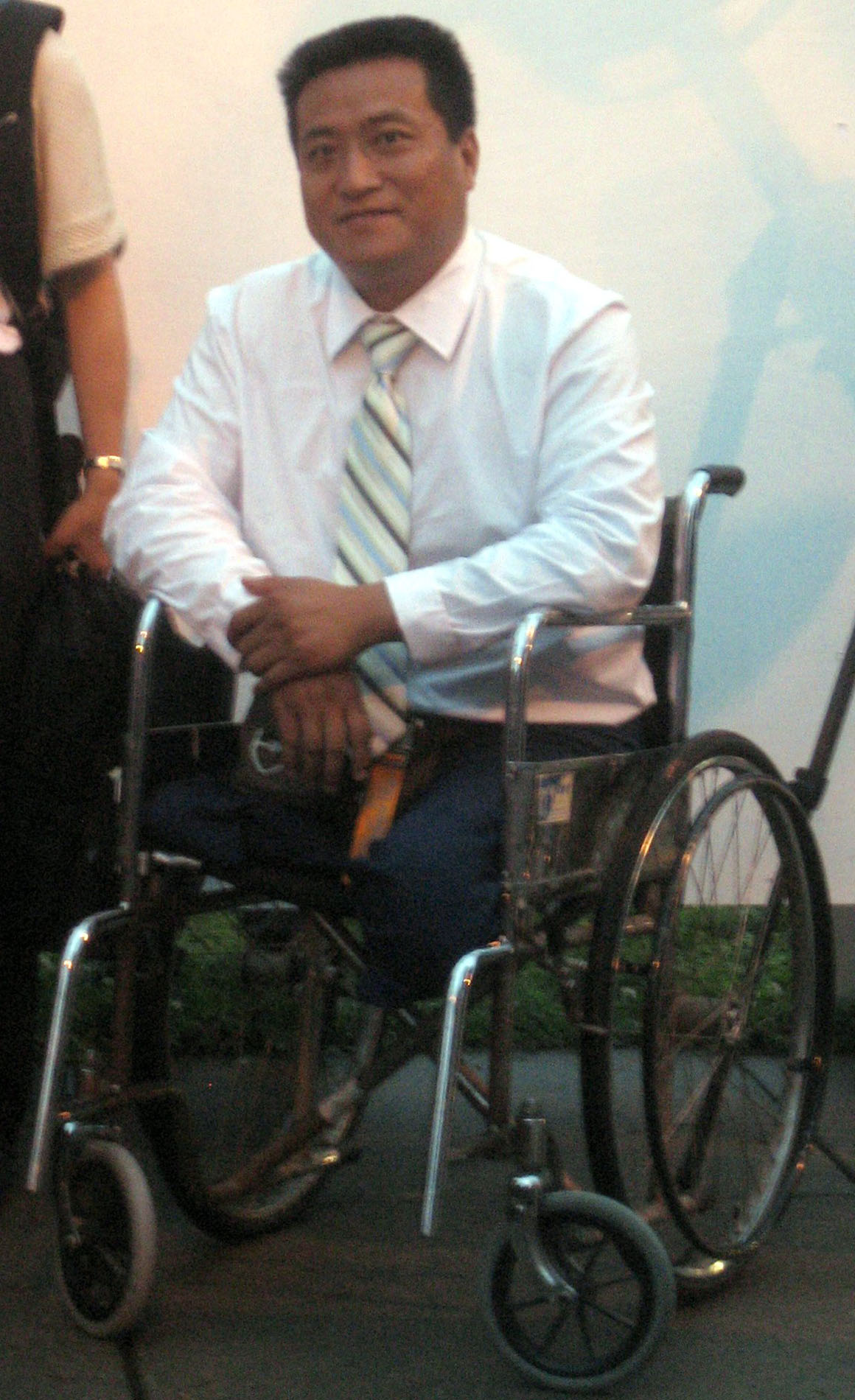 Fang Zheng, one of the tanks ran over him, resulting in the loss of his legs.